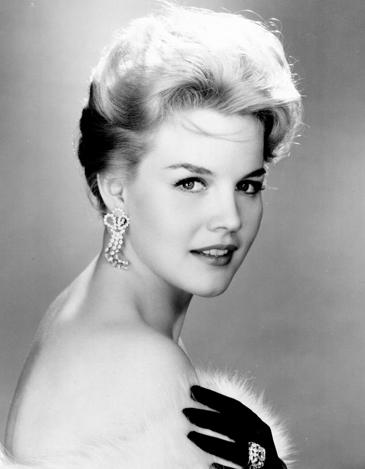 Original studio publicity photo of Carroll Baker